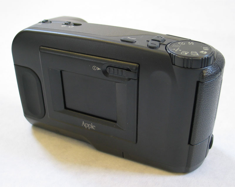 Photograph of the back of an Apple Quicktake 200 camera.